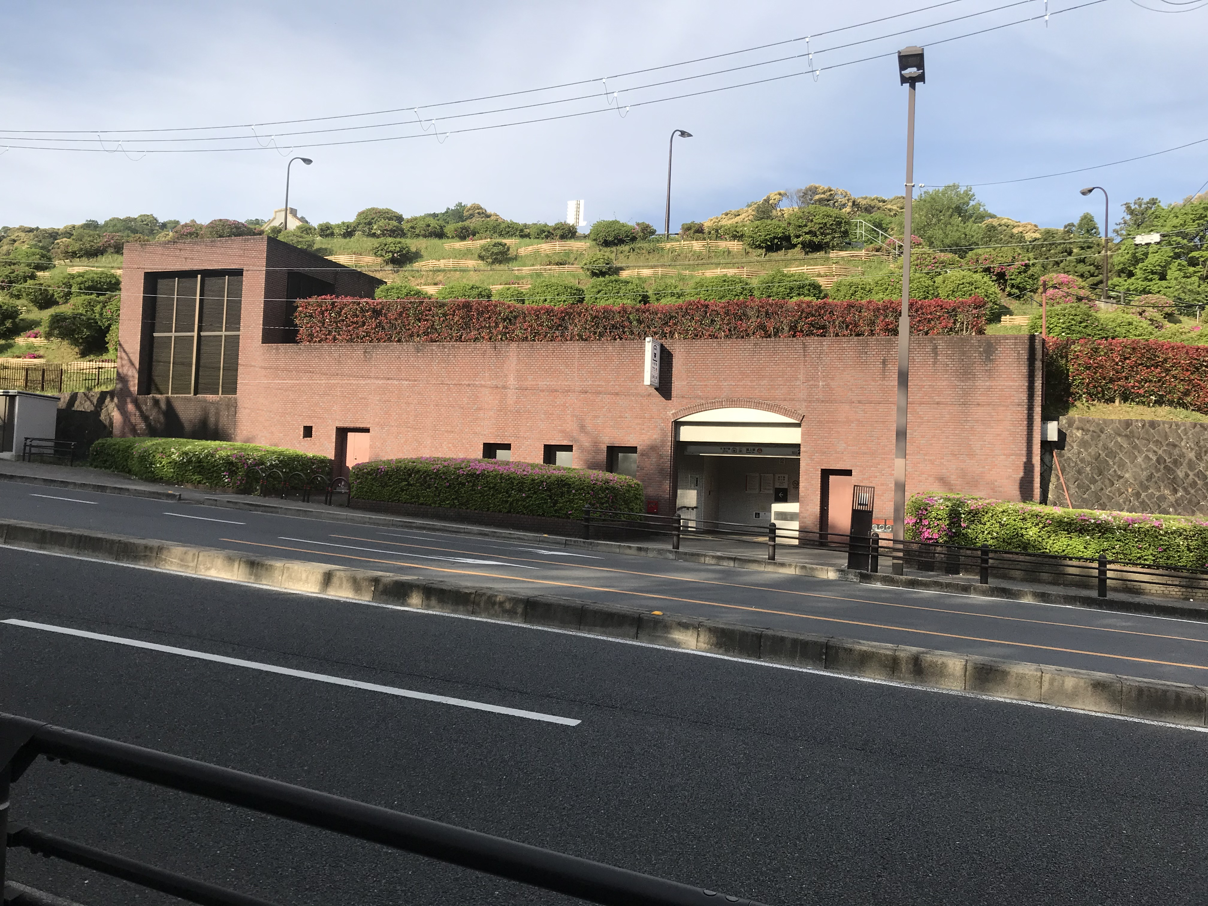 Kyoto subway Tozai line Keage station No. 2 exit